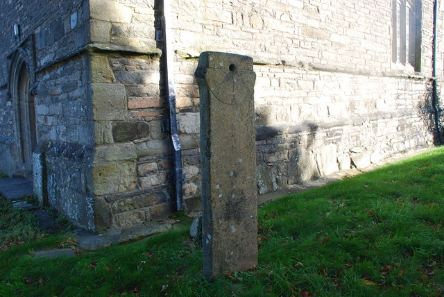 Ancient sundial on the west side of 587053. It dates probably from the tenth or eleventh century. The hole for the style remains, and the markings are for the divisions of the monastic day.